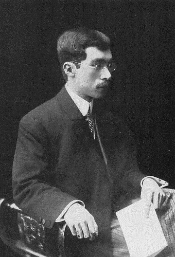 Kinkazu Ogimachi